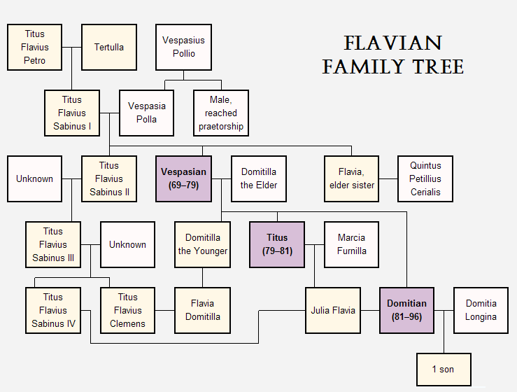 Family tree of the Flavian dynasty, which ruled the Roman Empire between 69 and 96 AD.